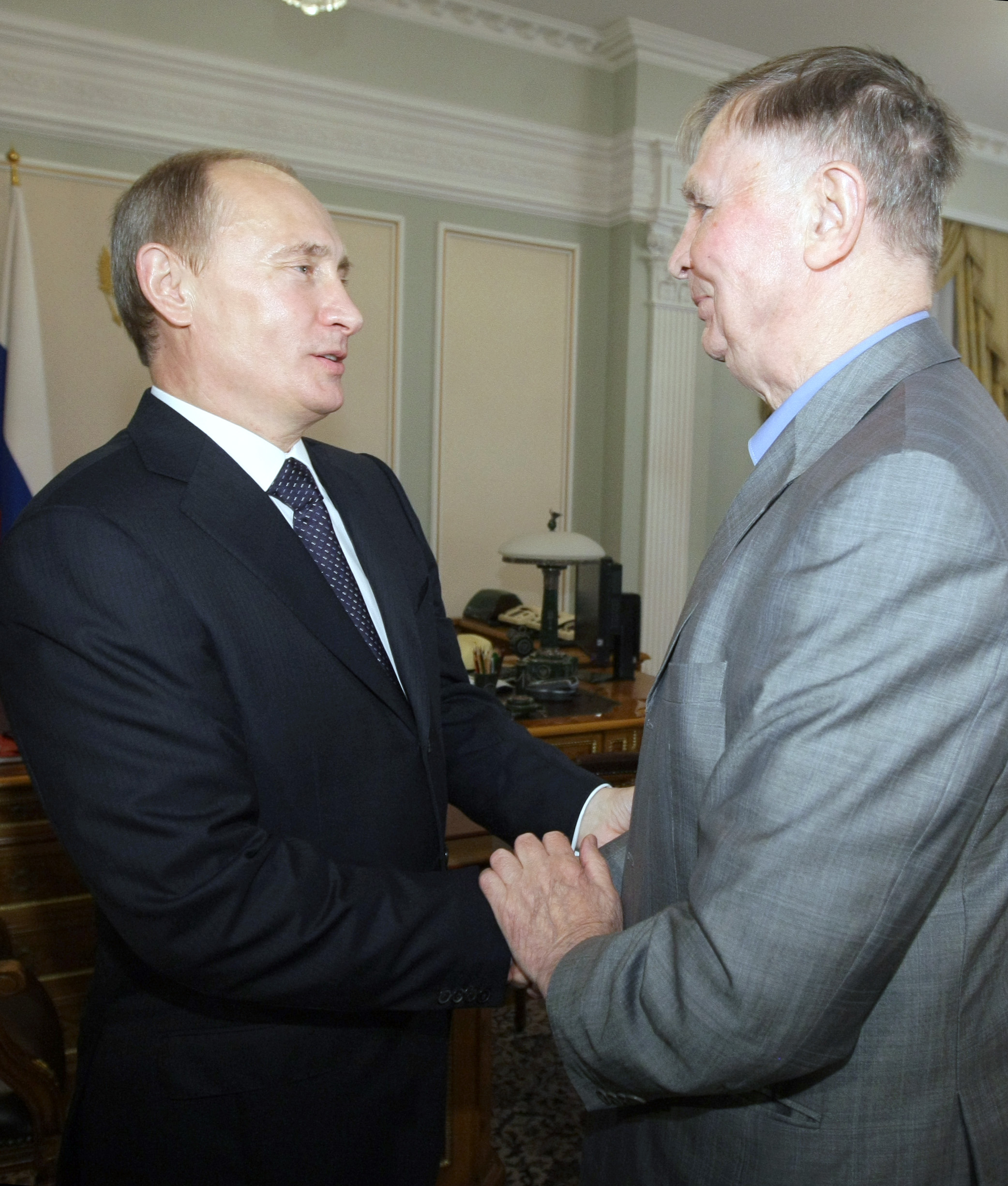 Prime Minister Vladimir Putin meeting with Viktor Tikhonov, former head coach of the CSKA hockey club and the Soviet National Team